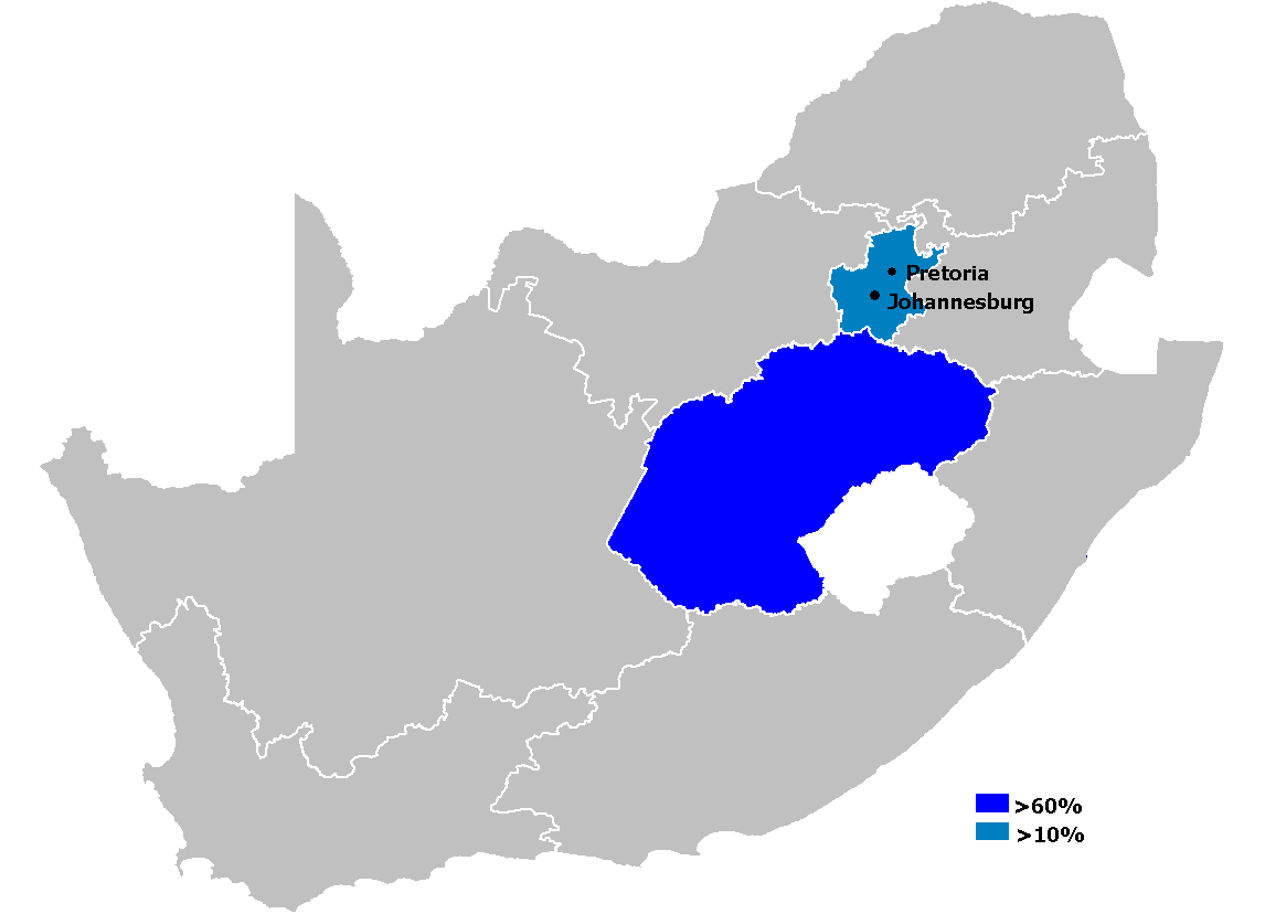 Percentage population of Sesotho home language speakers in the provinces of South Africa